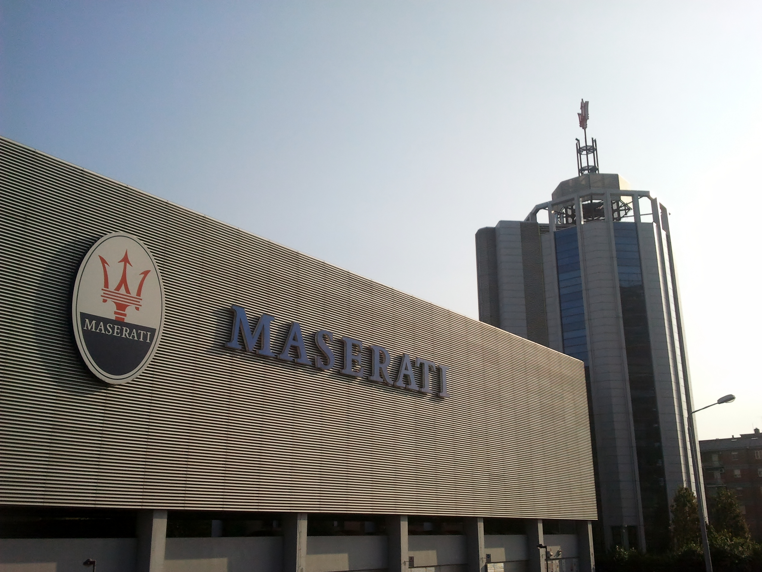 Maserarti - Modena Assembly Plant